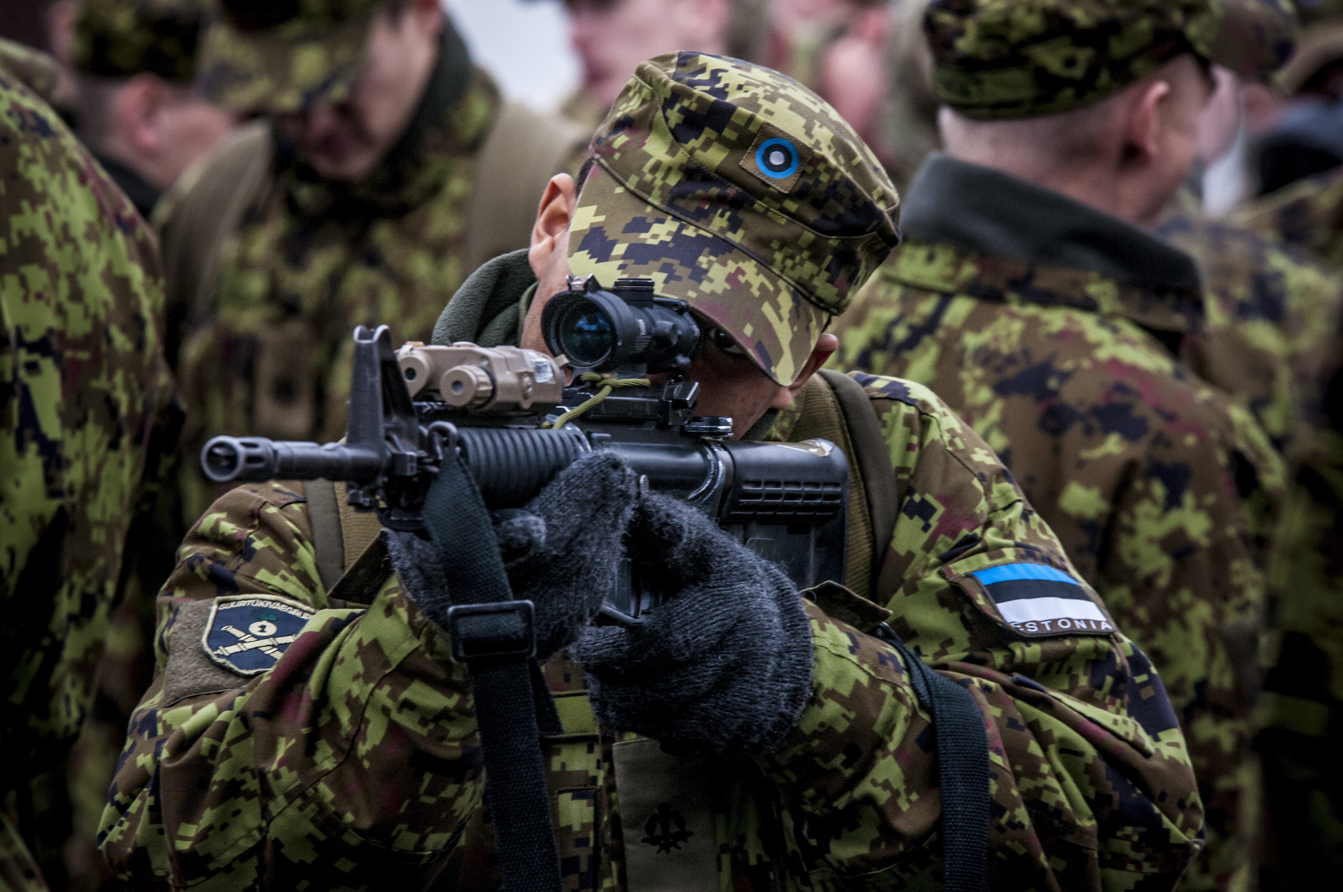 An Estonian Conscript looks down the sights of an M4 carbine during an exhibition of U.S. military weapons, equipment, and vehicles, here, hosted by Company B, 2nd Battalion, 8th Cavalry Regiment, 1st Brigade Combat Team, 1st Cavalry Division from Fort Hood, Texas, Friday Nov. 7, 2014. The U.S. Army Europe-led Atlantic Resolve, a multinational combined arms exercise involving the 1st Brigade Combat Team, 1st Cavalry Division, and host nations, takes place across Estonia, Latvia, Lithuania and Poland to enhance multinational interoperability, to strengthen relationships among allied militaries, to contribute to regional stability, and to demonstrate U.S. commitment to NATO.